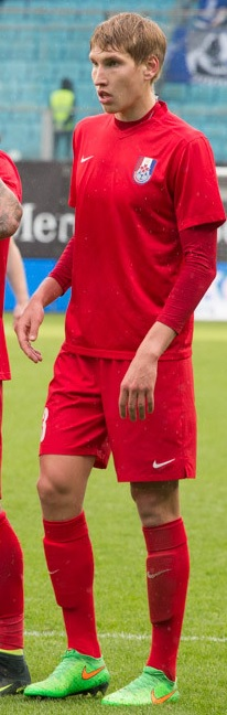 Ruslan Navlyotov with FC Mordovia Saransk in a game against FC Dynamo Moscow.